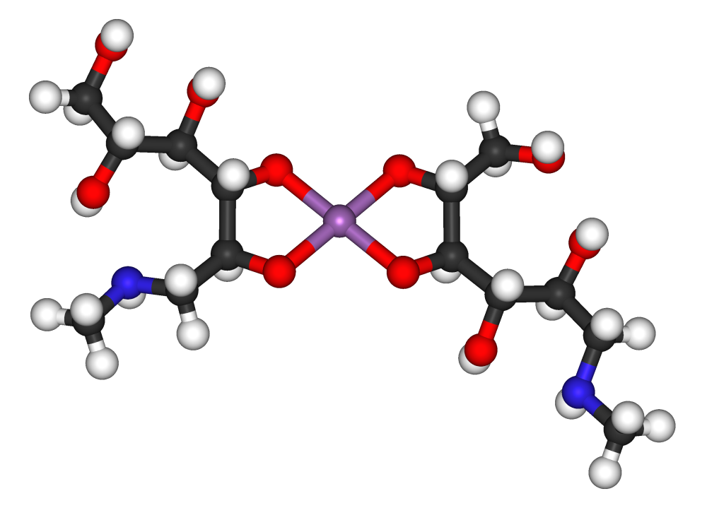 Ball-and-stick model of the purported major component of meglumine antimoniate. Created using Accelrys DS Visualizer Pro 1.6 and GIMP.